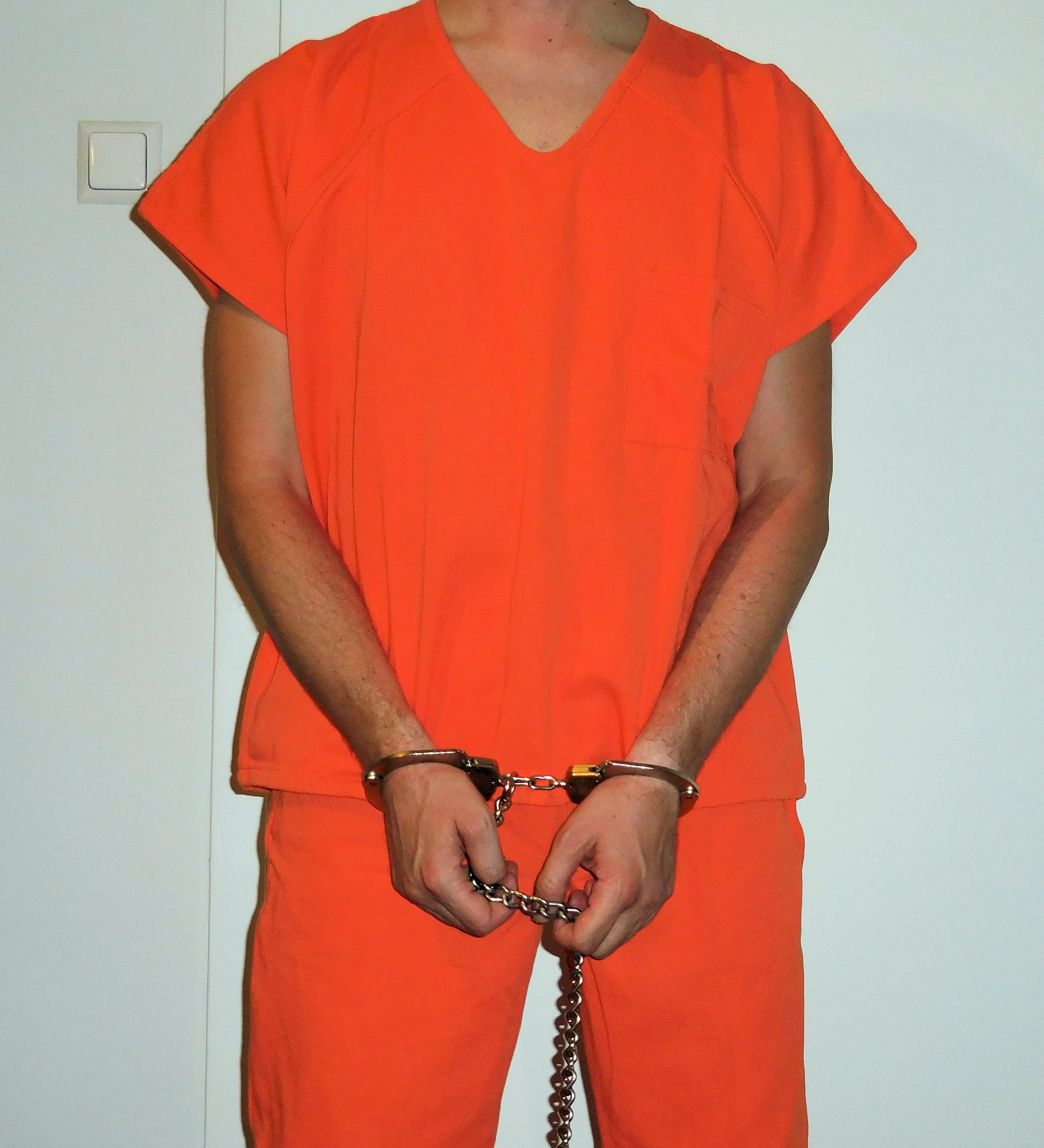 Inmate in orange prison scrubs and restraints